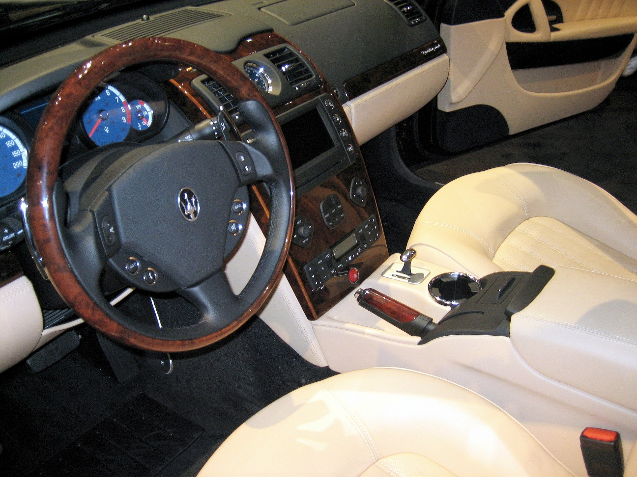 The interior of a Maserati Quattroporte Executive GT at the 2006 Chicago Auto Show